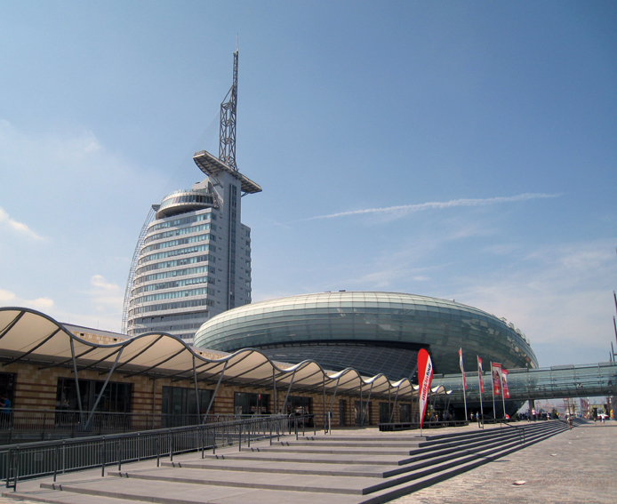 The science center Klimahaus 8° Ost (in the foreground) and the hotel Altantic Sail City (in the backgrund) in Bremerhaven, Germany.